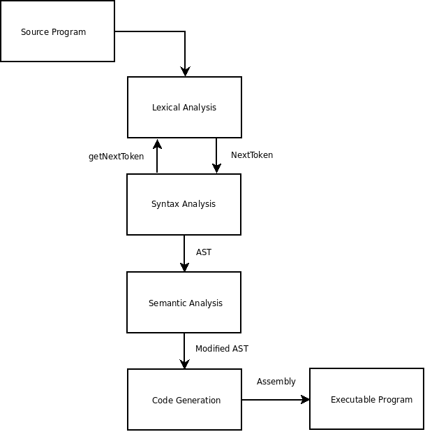 Diagram of a multi-pass compiler